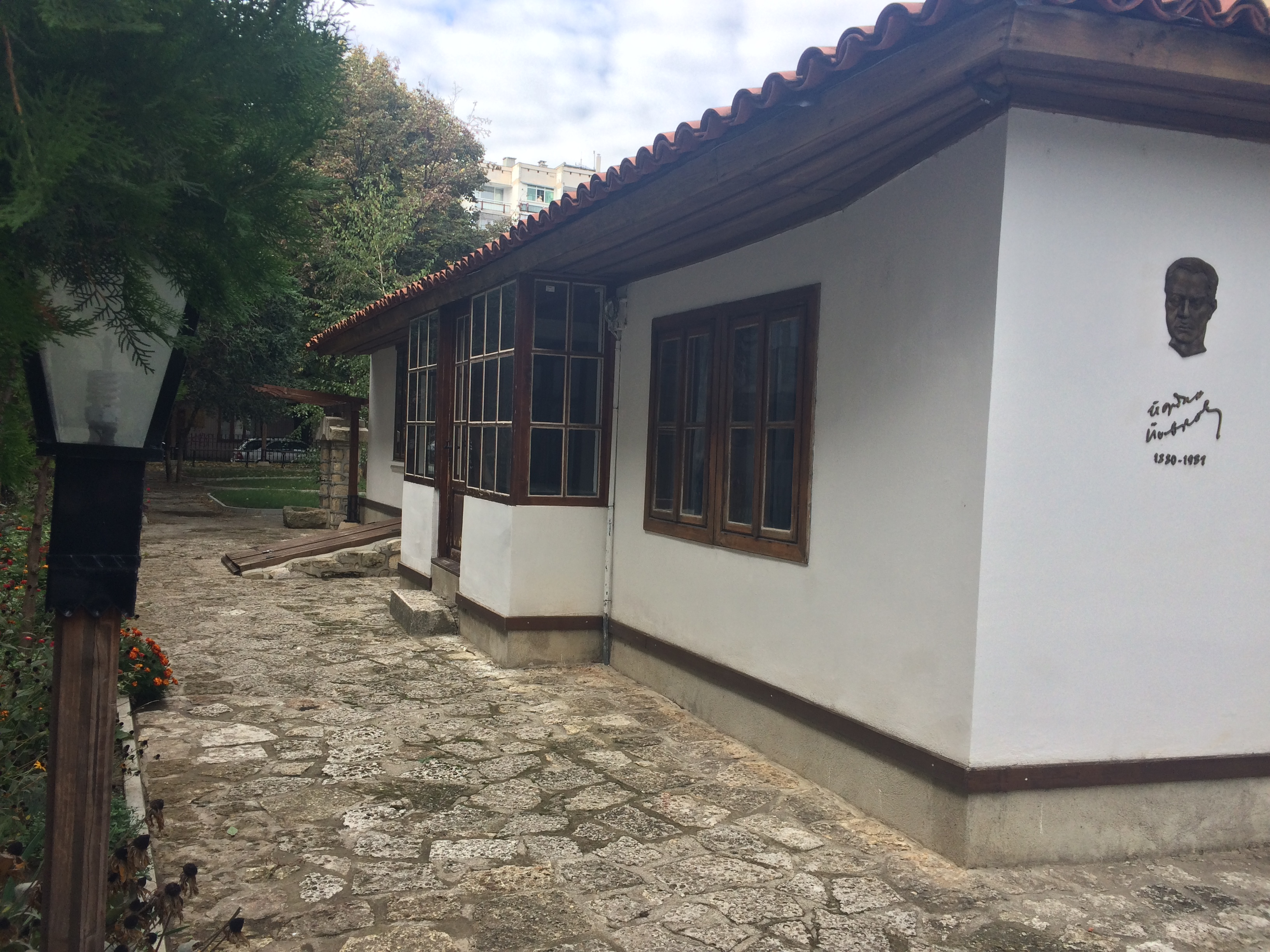 House in Dobrich where lived Yordan Yovkov